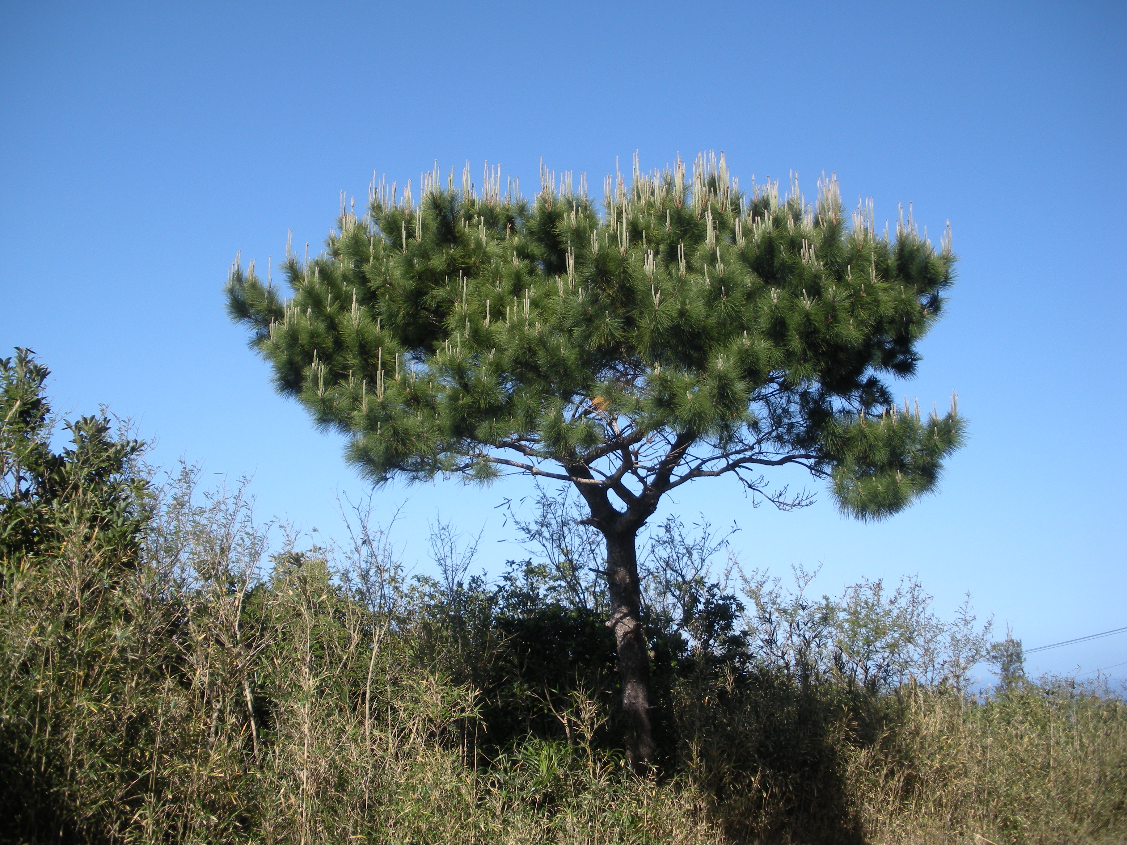 Pinus luchuensis (Okinawa Pine), Chichijima Island, Bonin Islands, Japan